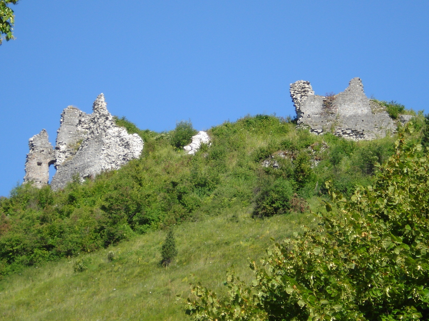 Ruins of Tržan Castle in Modruš (Croatia) - south view